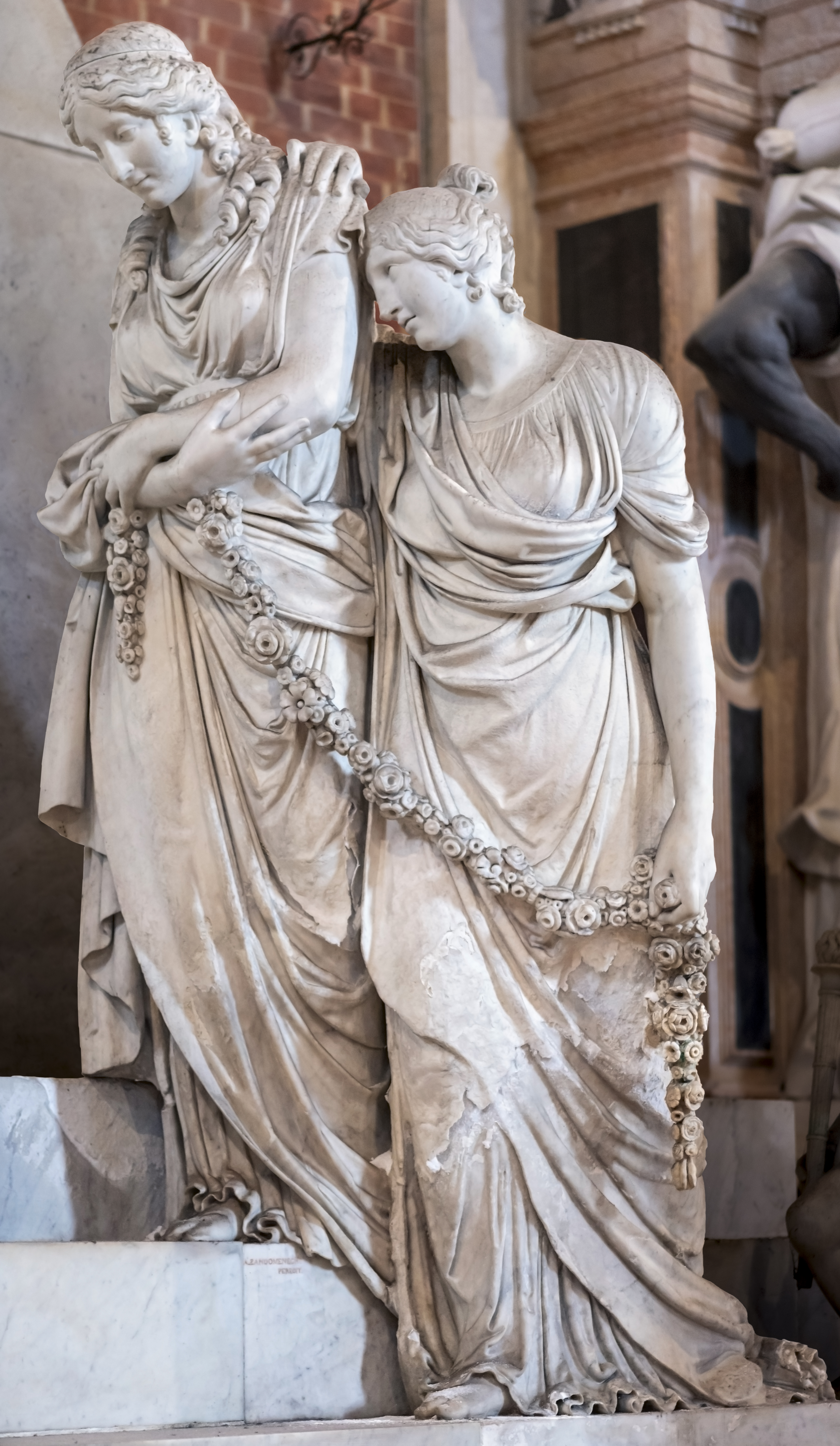 The Basilica di Santa Maria Gloriosa dei Frari, monument to Canova. In 1794 Antonio Canova designed and built a model for the tomb of Titian, but there were many difficulties in raising the necessary funds for the construction, so that in 1822, the year of Canova's death, it was still in draft form. Canova was buried in Possagno, his native country, the Academy of Fine Arts of Venice decided to build a monument to preserve the porphyry urn containing the heart of the artist; the work was undertaken by six of his students and completed in 1827. Painting and Architecture - Luigi Zandomeneghi - 1827.